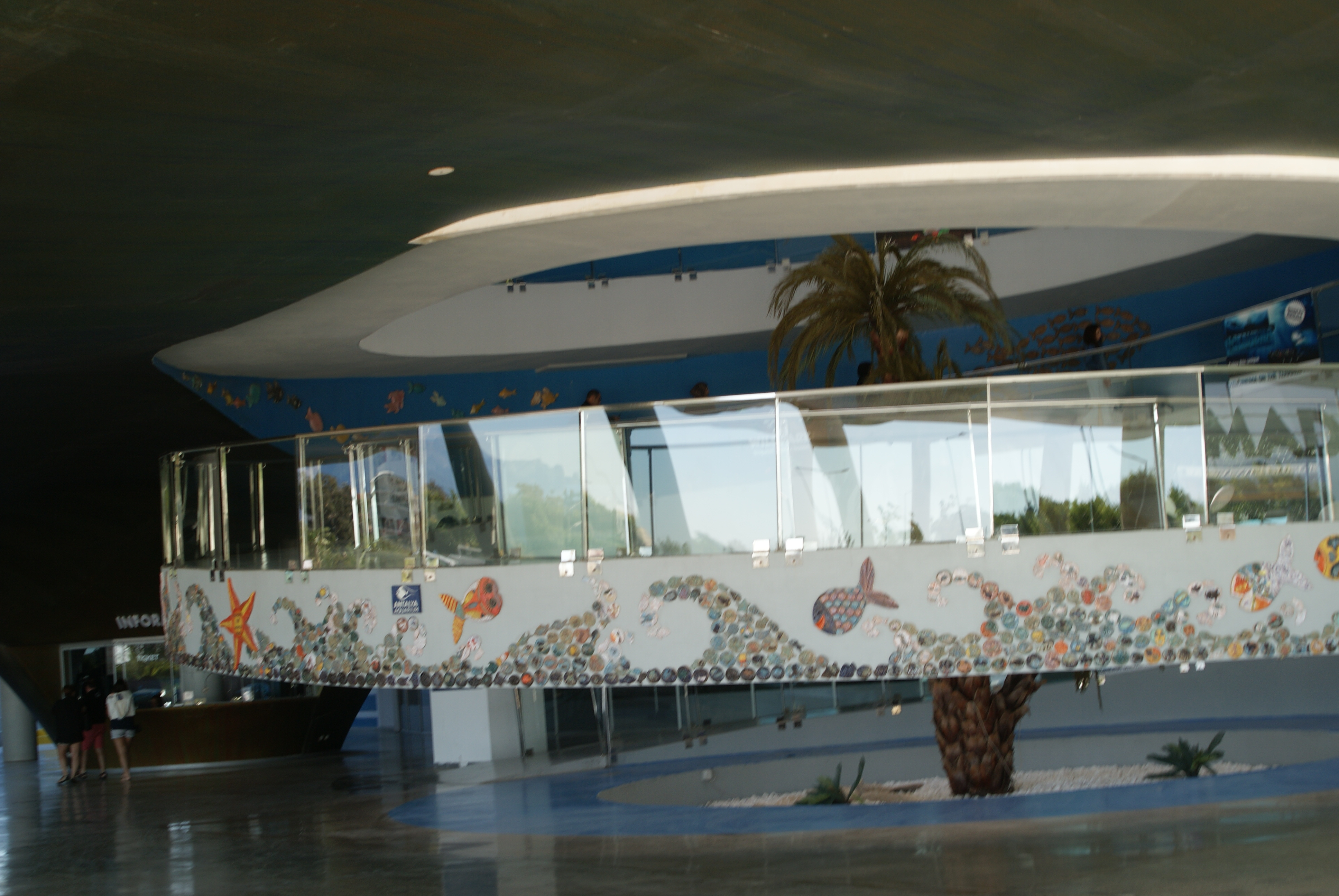 Antalya Aquarium